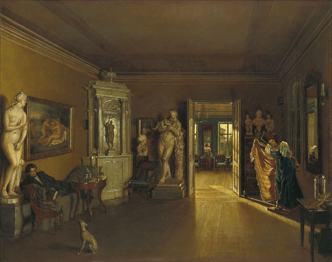 Venetsianov's Study. (Copy of Tyranov's painting). c.1830s-1840s. Oil on canvas. The Tretyakov Gallery, Moscow, Russia.